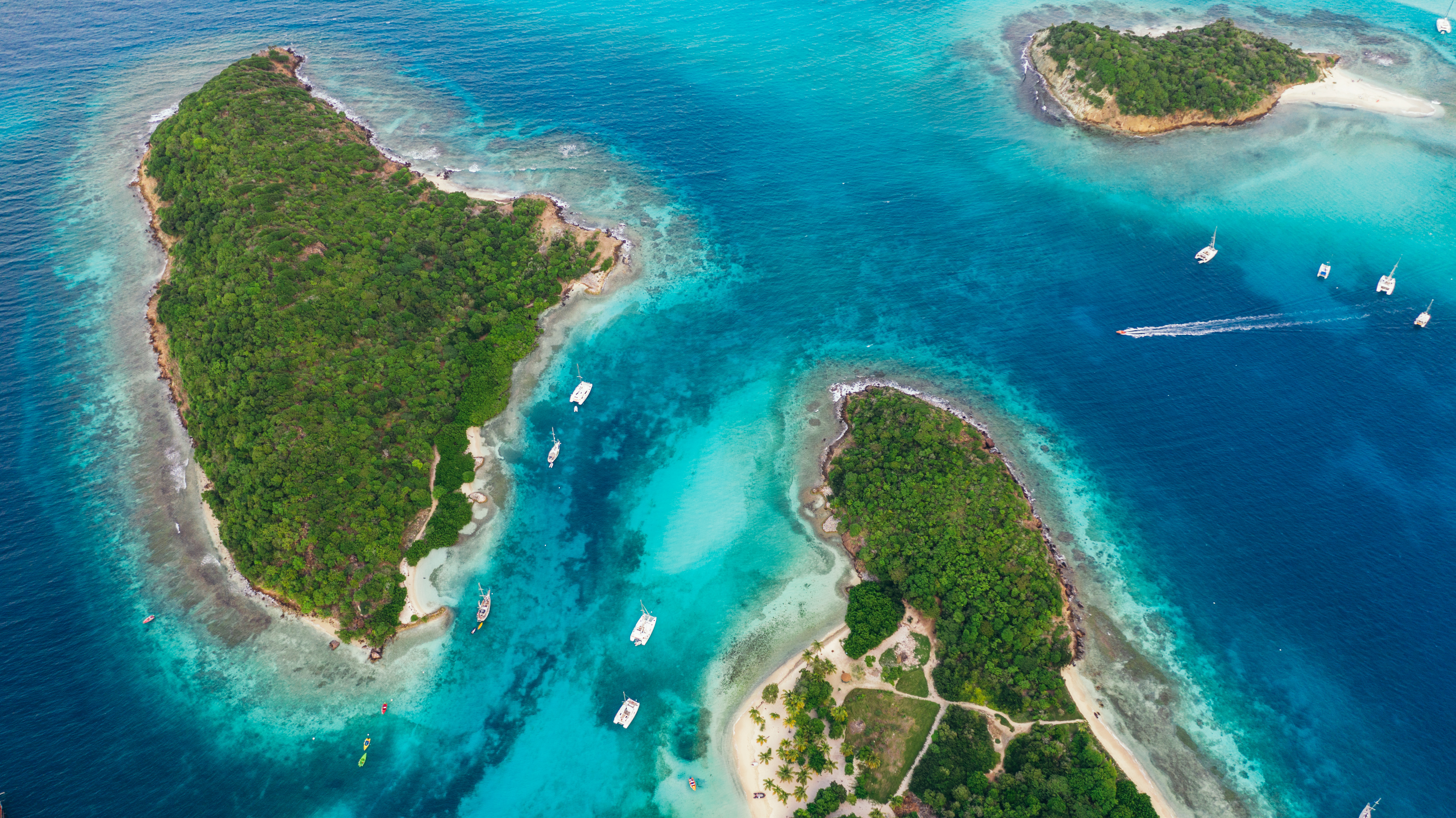 Aerial view der Tobago Cays with Petit Rameau on the right and Baradal in the background